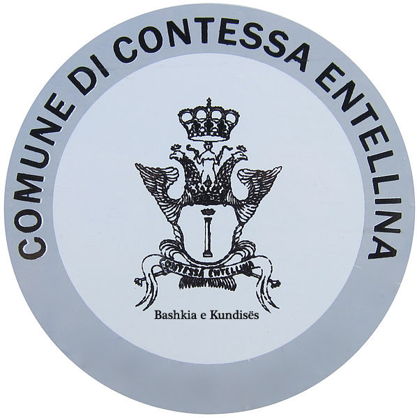 shield of the municipality of Contessa Entellina, Palermo, Sicily